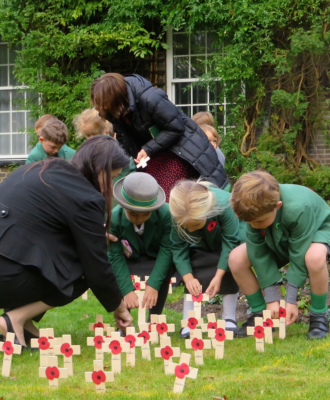 Three young pupils, guided by a teacher, push small wooden crosses into the lawn at Chinthurst School during a ceremony to mark Remembrance Day, 11 November 2014. School building and another three children and adult in background.